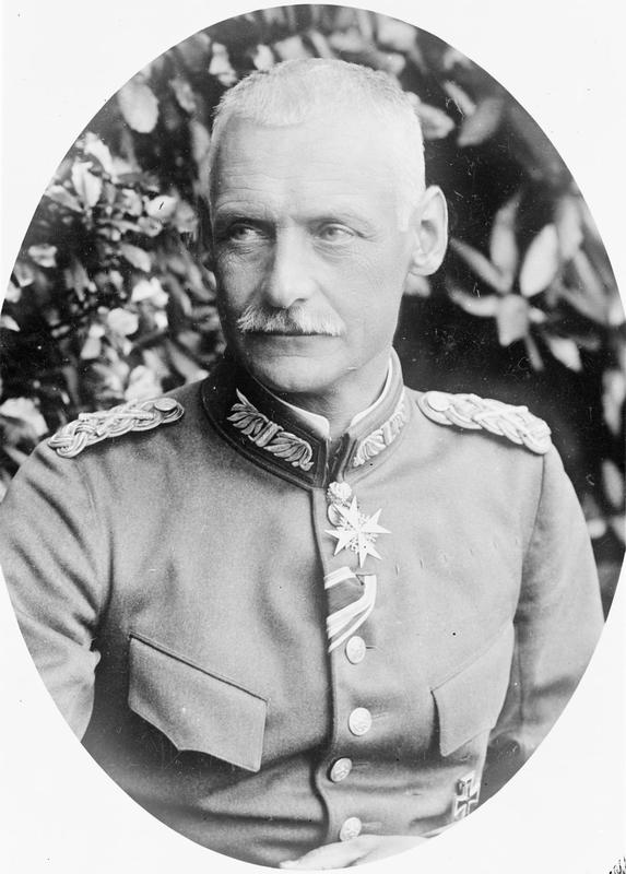 Geiser Theodore (mons) Collection Crown Prince Rupprecht of Bavaria.